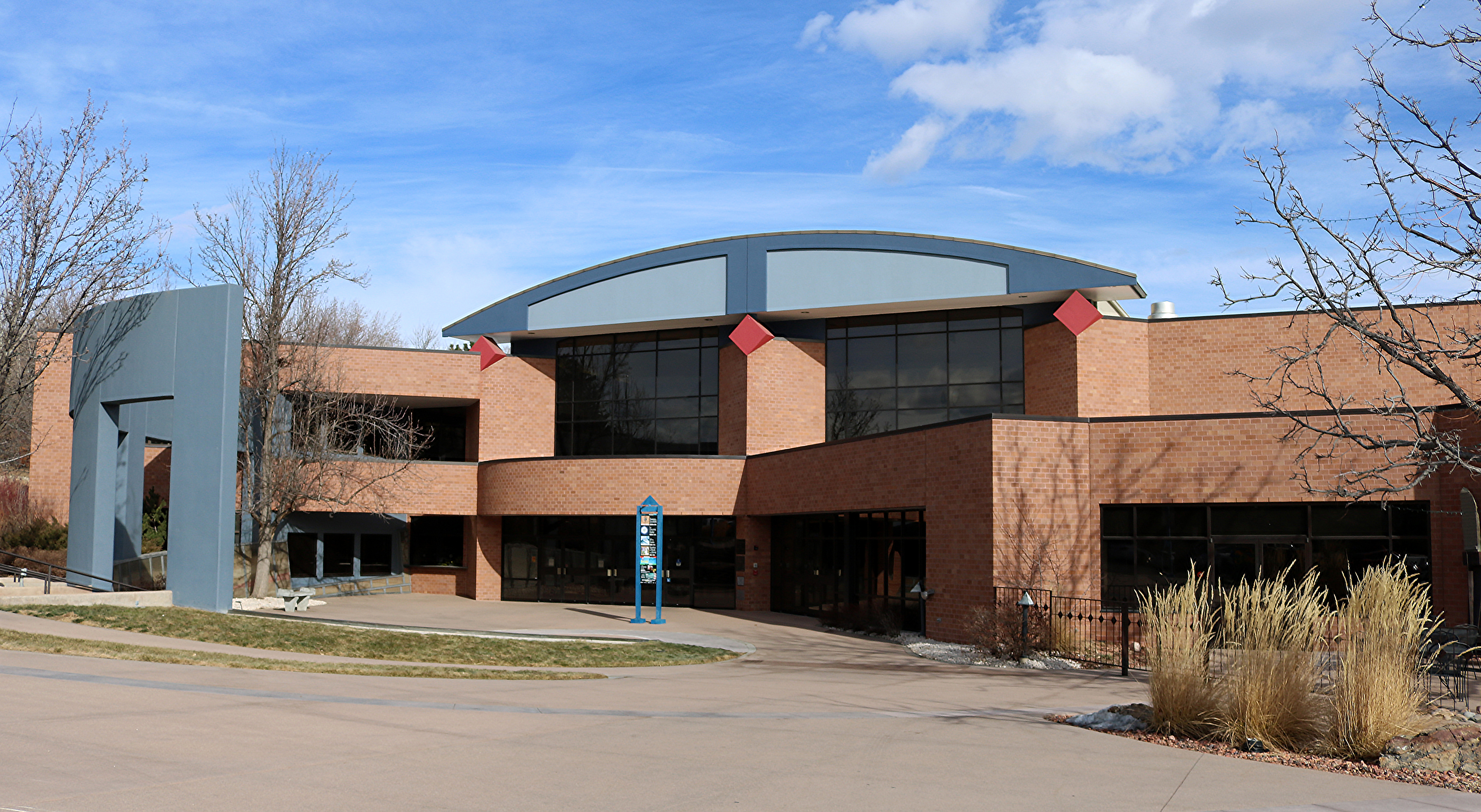 The Arvada Center for the Arts and Humanities, located at 6901 Wadsworth Boulevard in Arvada, Colorado. The picture shows the entrance area to the Center's main building.